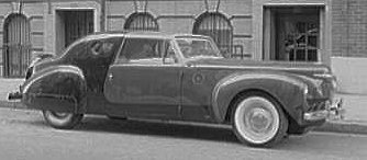 1946 Lincoln Zephyr special; one of two restyled by designer Raymond Loewy for his personal use. The conversion was executed by Derham. Cropped from photo put in public domain on